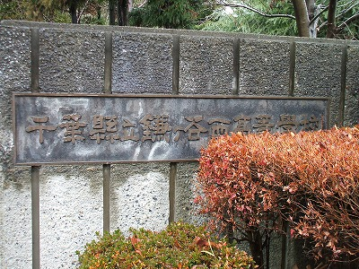 Name plaque of the Chiba Prefectural Kamagaya Nishi High School